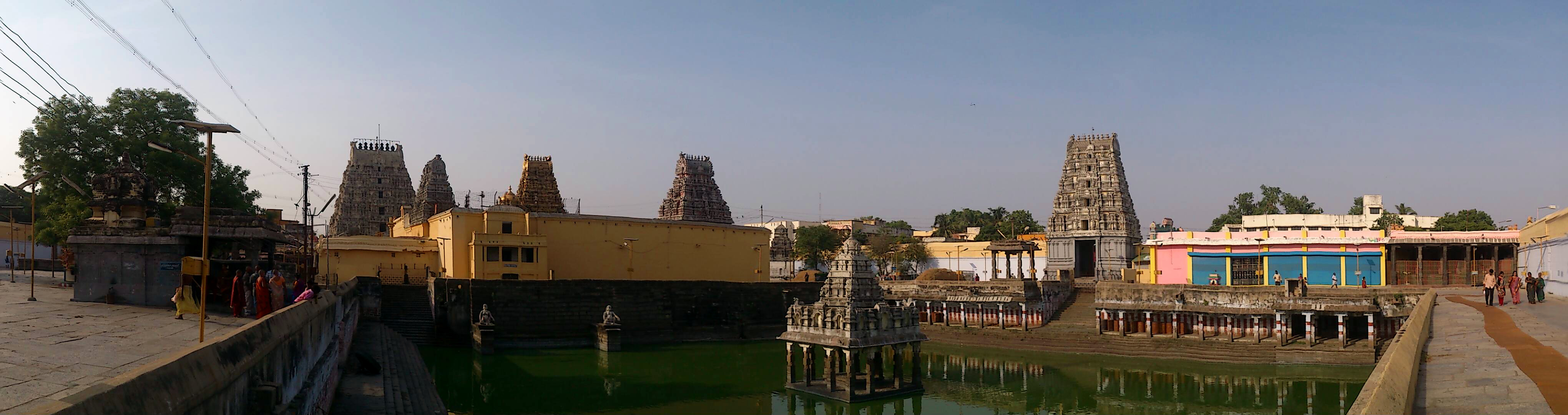 This media file is uploaded with Malayalam loves Wikimedia event - 3.